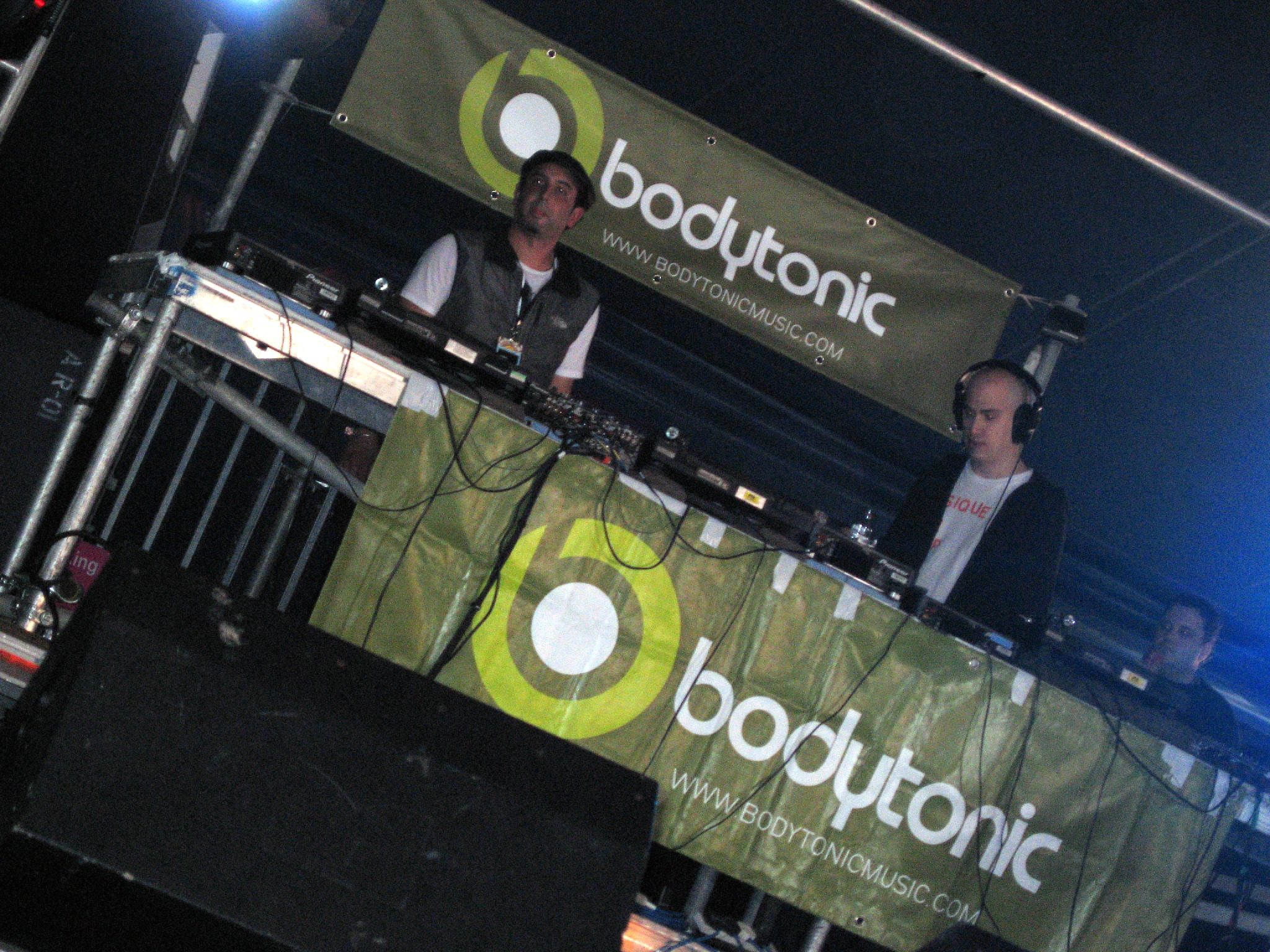 Metro Area. From the flickr page: Taken in Laois, IE (map) Taken with a Canon Digital IXUS 750. Taken on September 3, 2006